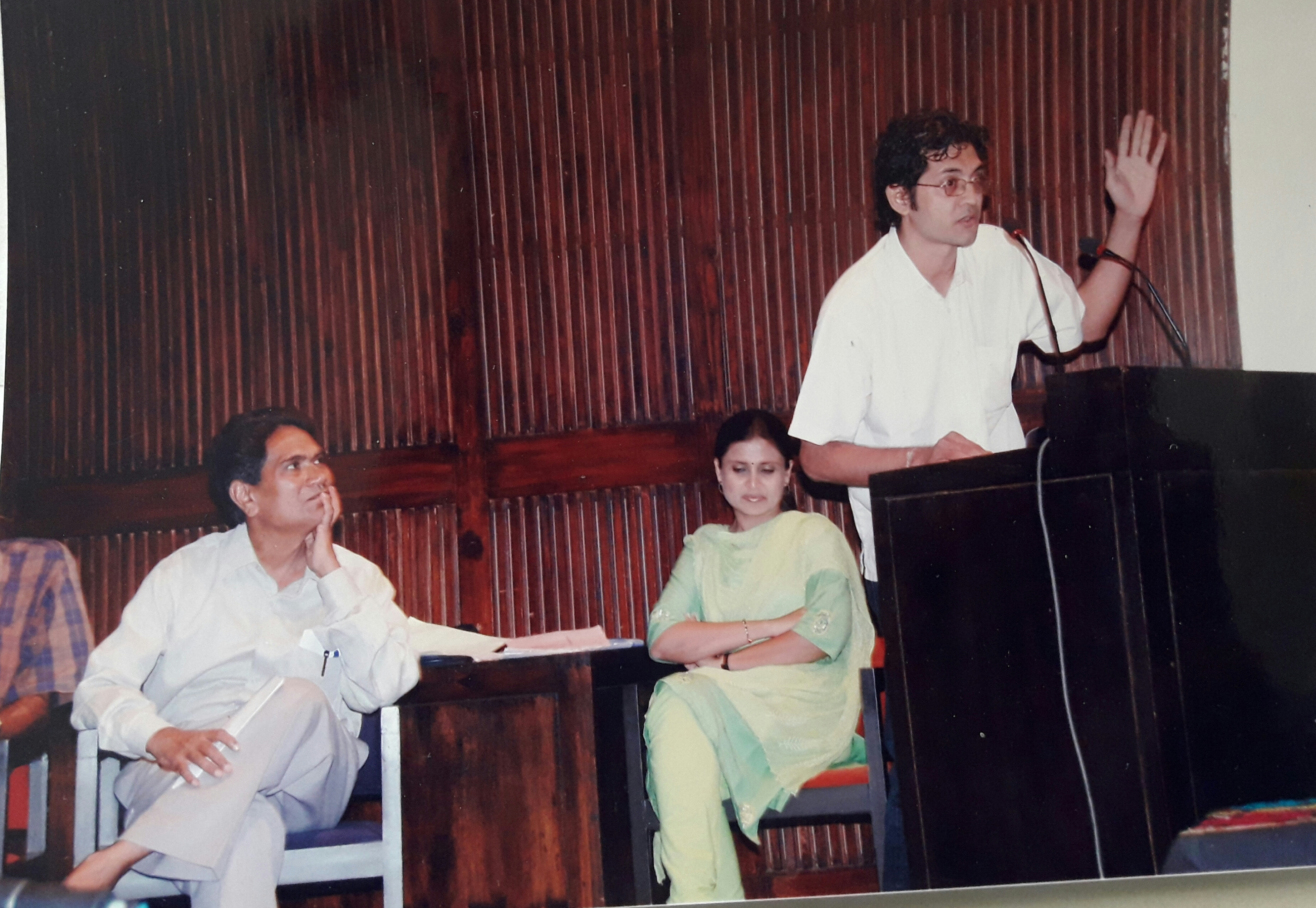 Saumya Joshi_Dalpat Padhiyar_Falguni Hiren in 1998 at Gandhi Sansthan, Ahmedabad, Gujarat